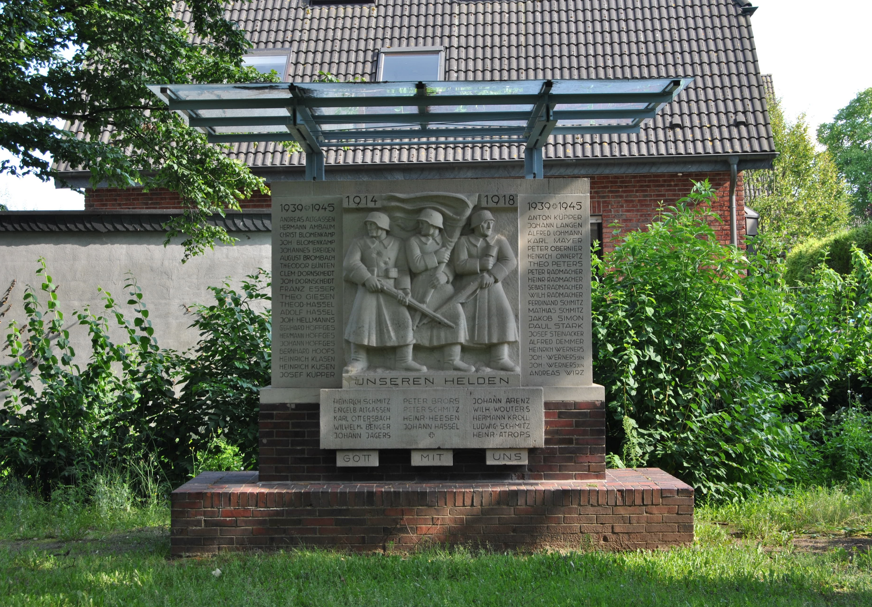 Duisburg (North Rhine-Westphalia, Germany) – borough Süd, district Mündelheim-Serm – World War I & II memorial (built by Ferdinand Heseding in 1934) This image shows a heritage building in Germany, located in the North Rhine-Westphalian city Duisburg (no. 579). This photograph was taken with a Nikon D3000.